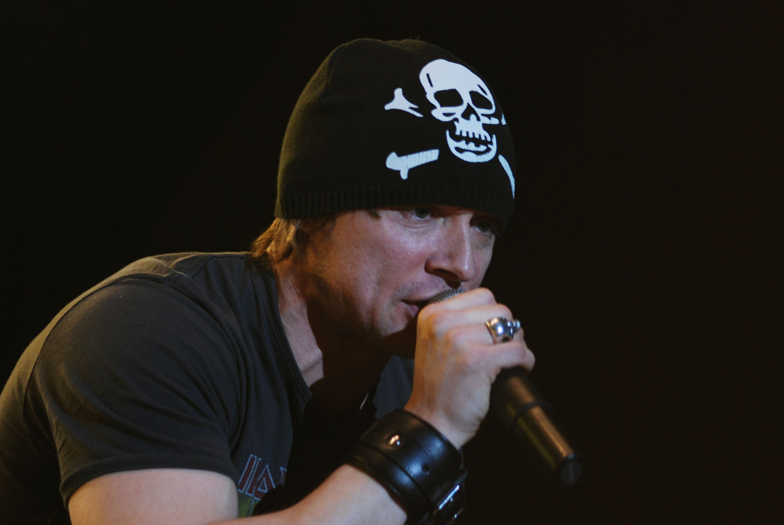 Soren Nico Adamsen from Artillery during Metalmania 2008 festival